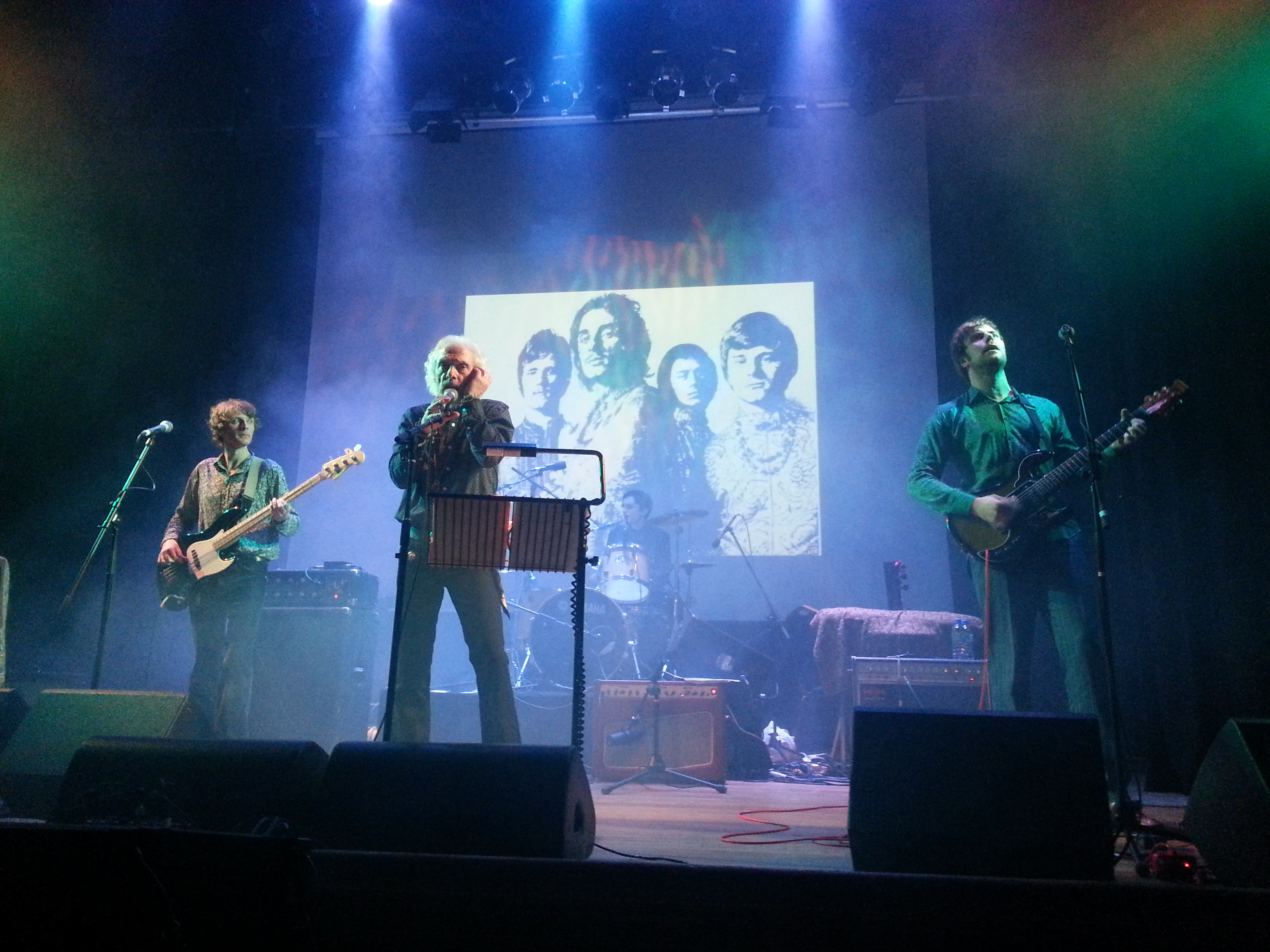 Peter Daltrey With Trembling Bells performing Kaleidoscope songs in Islington, London